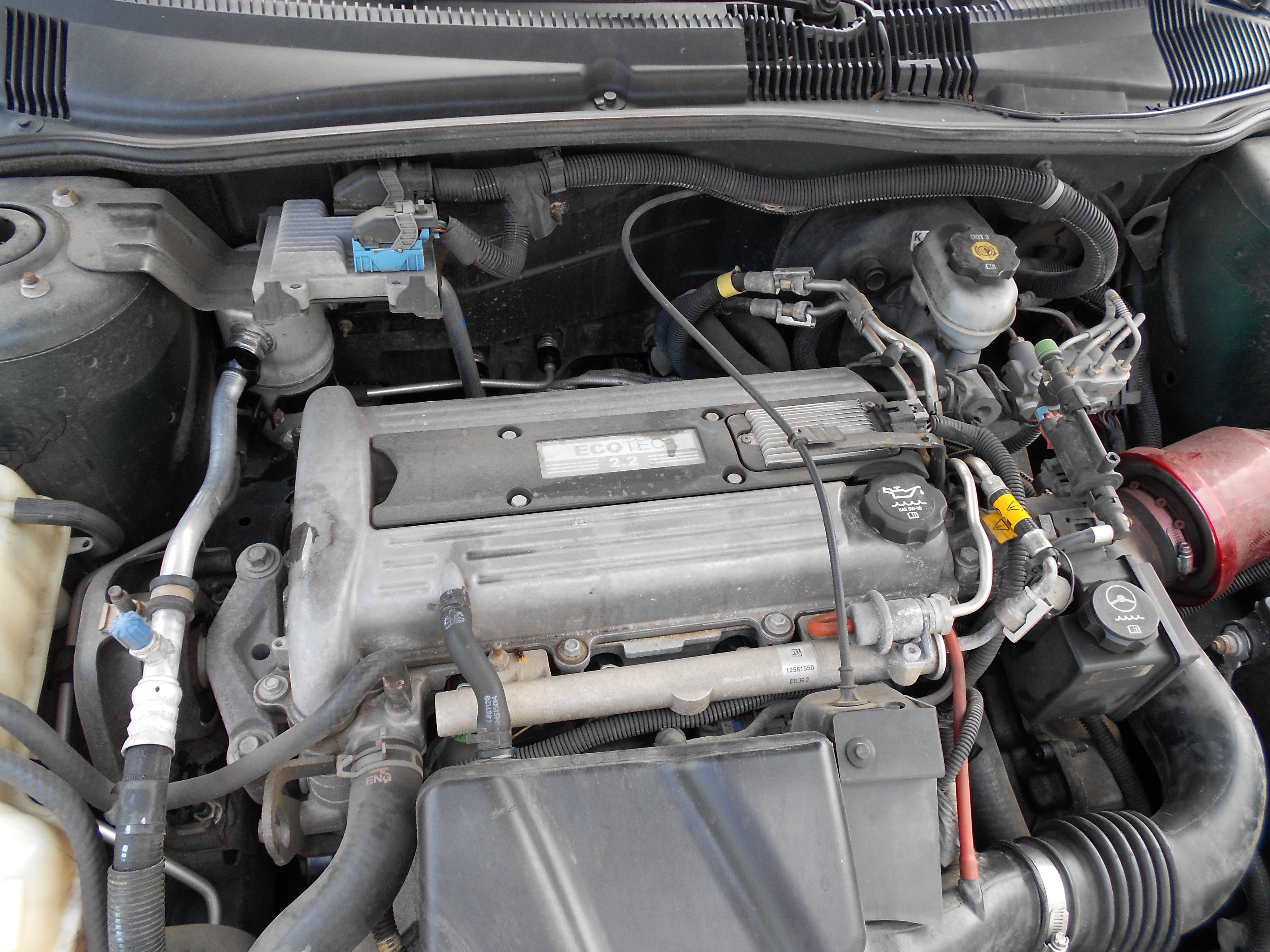 2.2 L Ecotec L61 engine installed in my 2003 Cavalier. Taken with my personal camera.